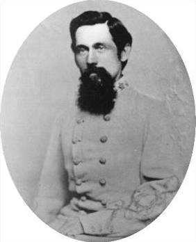 Photo of Gabriel Colvin Wharton (1824-1906)